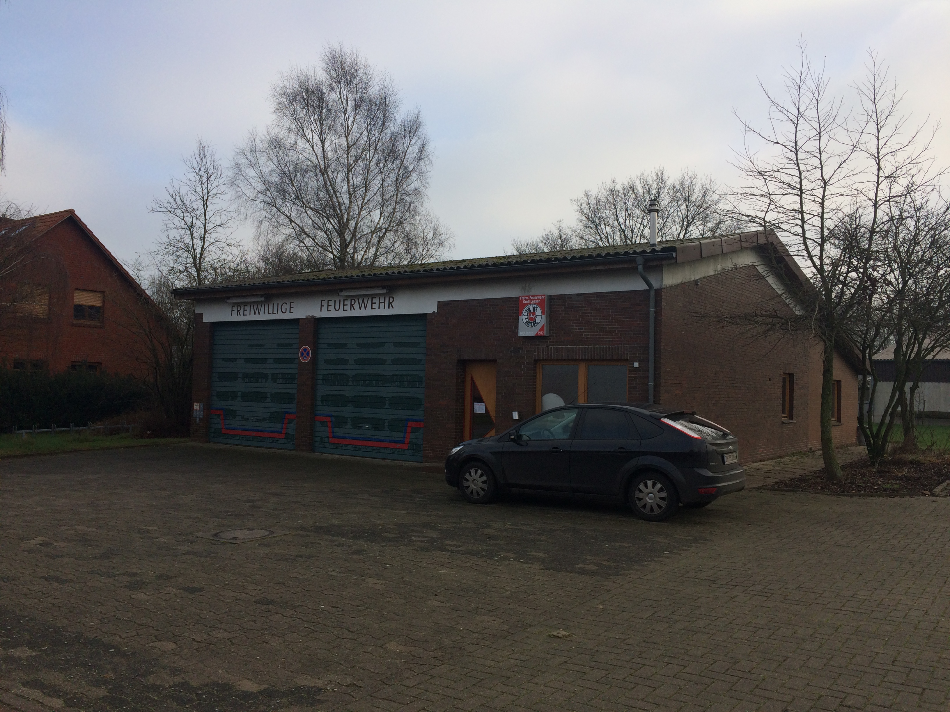 Groß Lessen